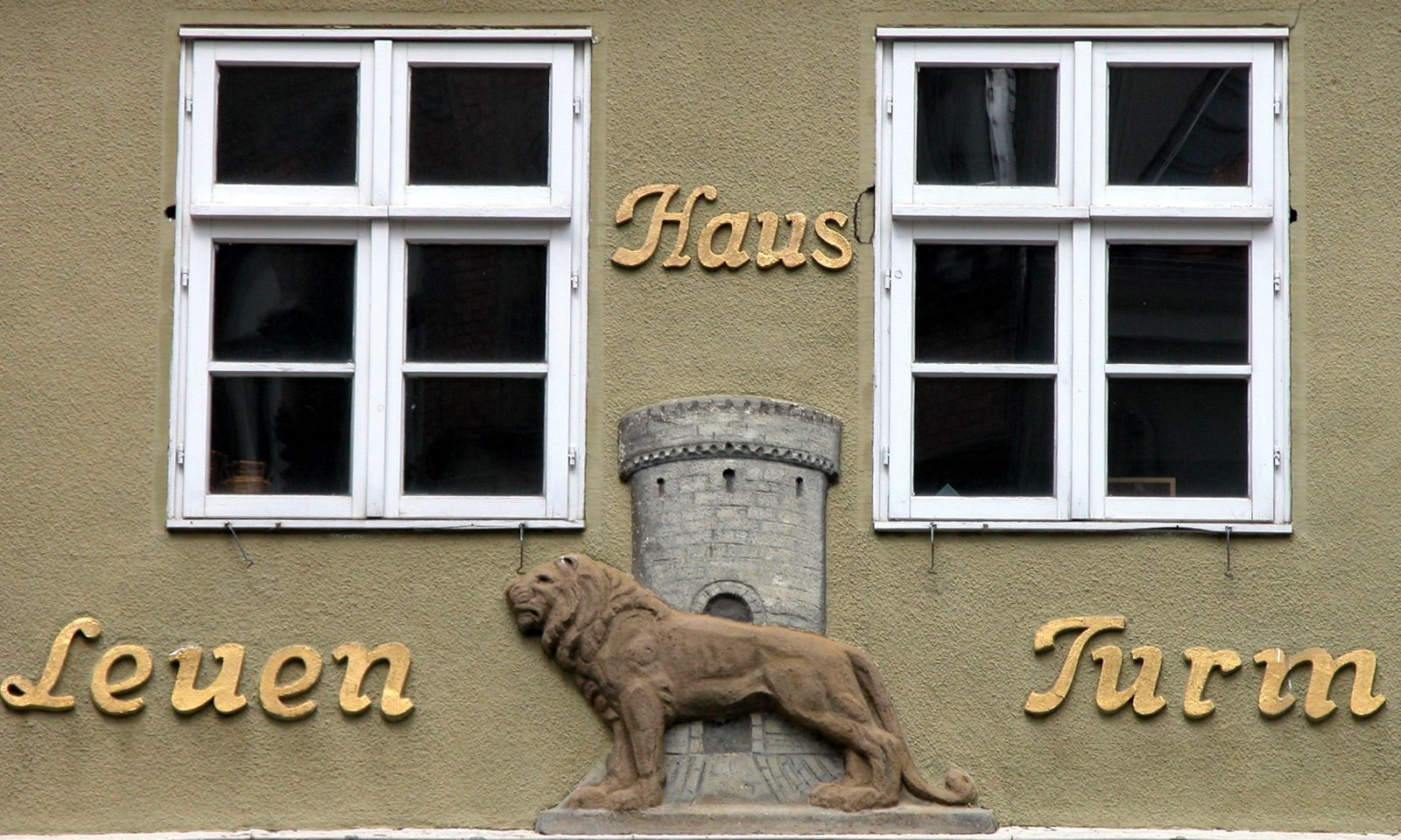 Brunswick, Germany: The “Lion Tower” House.